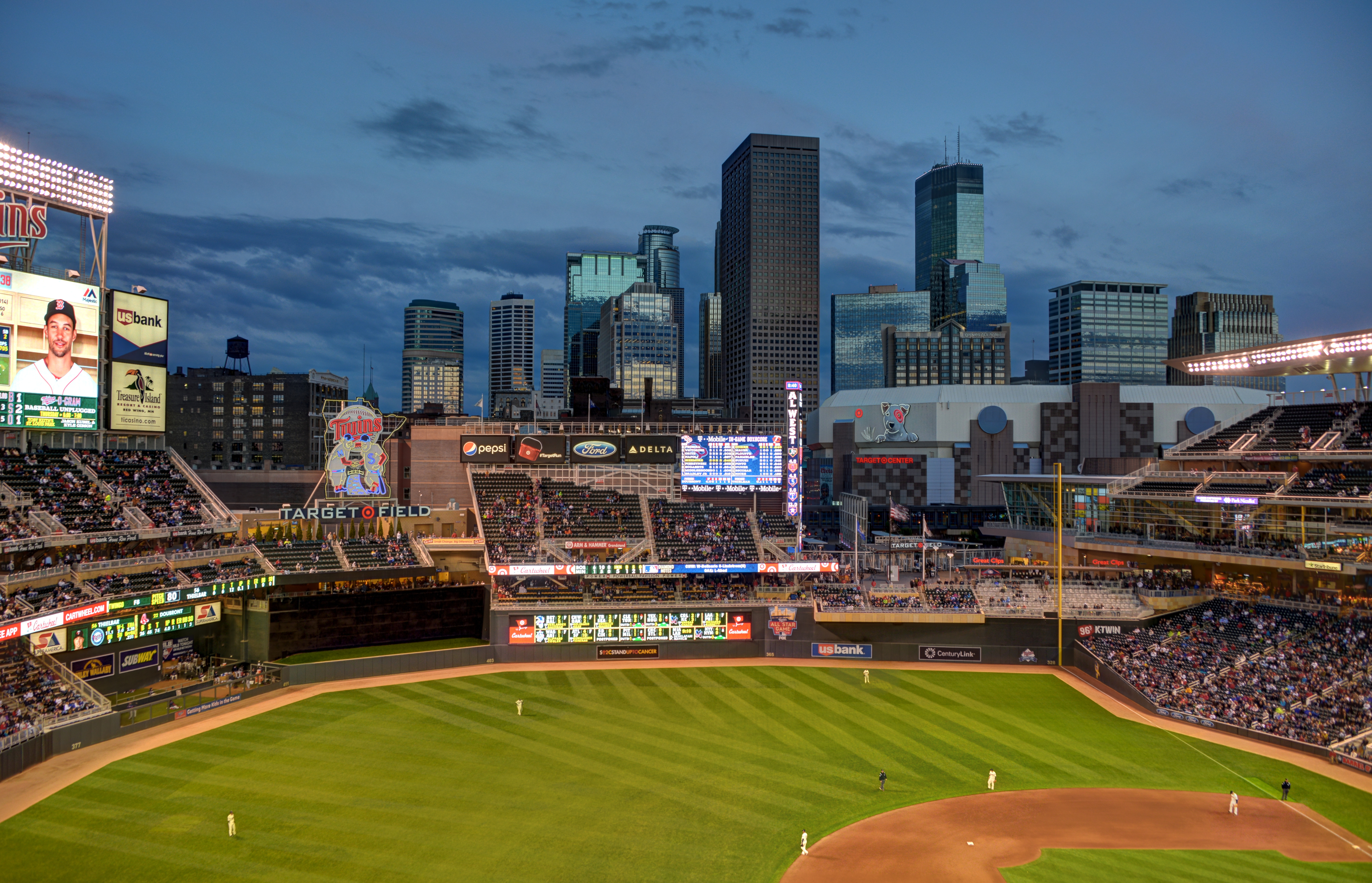 The Minneapolis skyline behind the field and stands of Target Field during an evening baseball game.